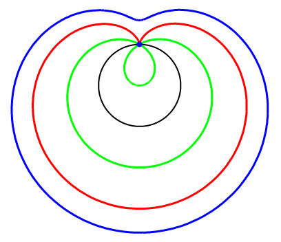 Limaçons of Pascal, a cardioid is in red.